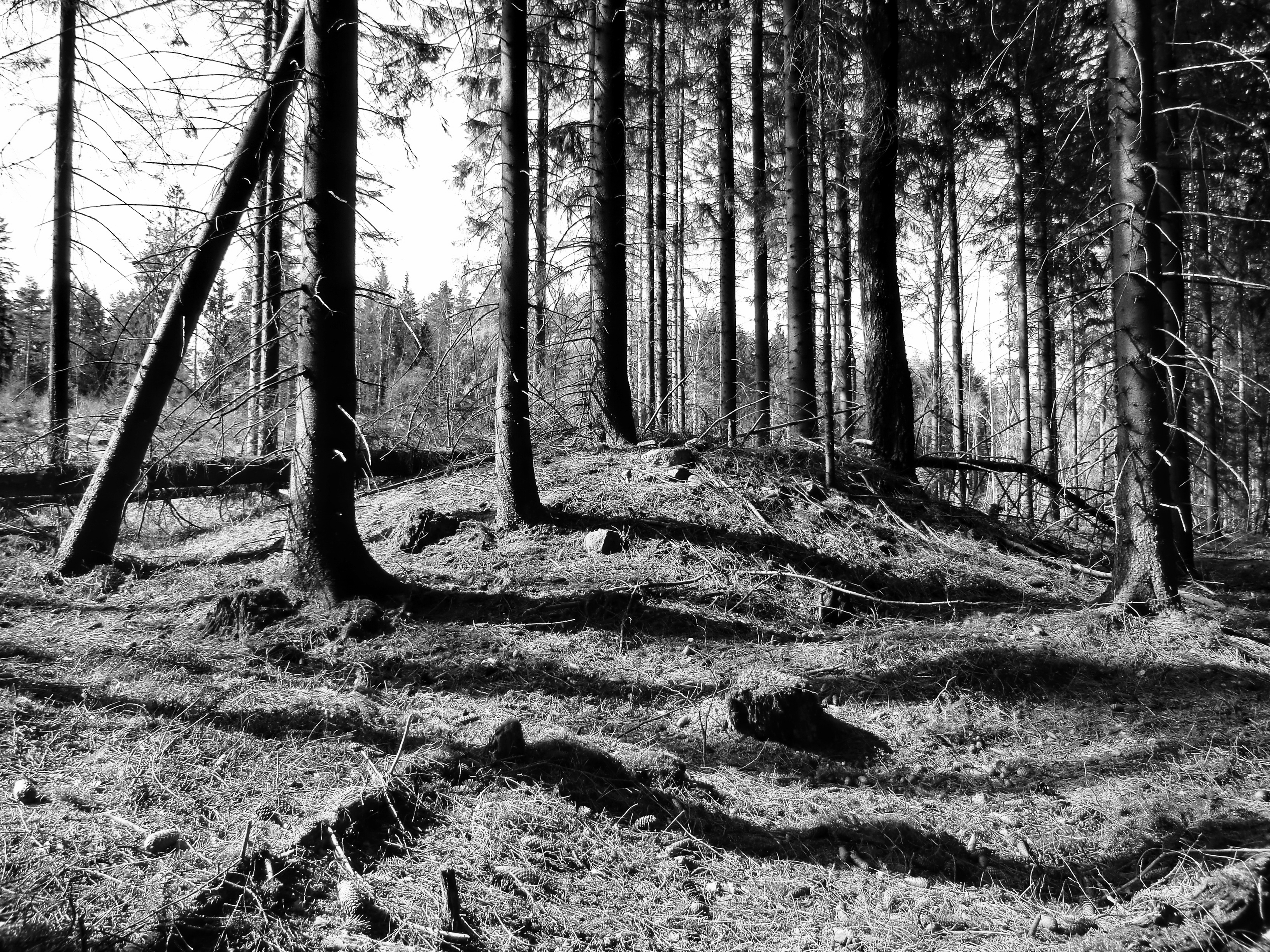 Iron Age burial mound on Inglingstad in Hurum, Buskerud, Norway.